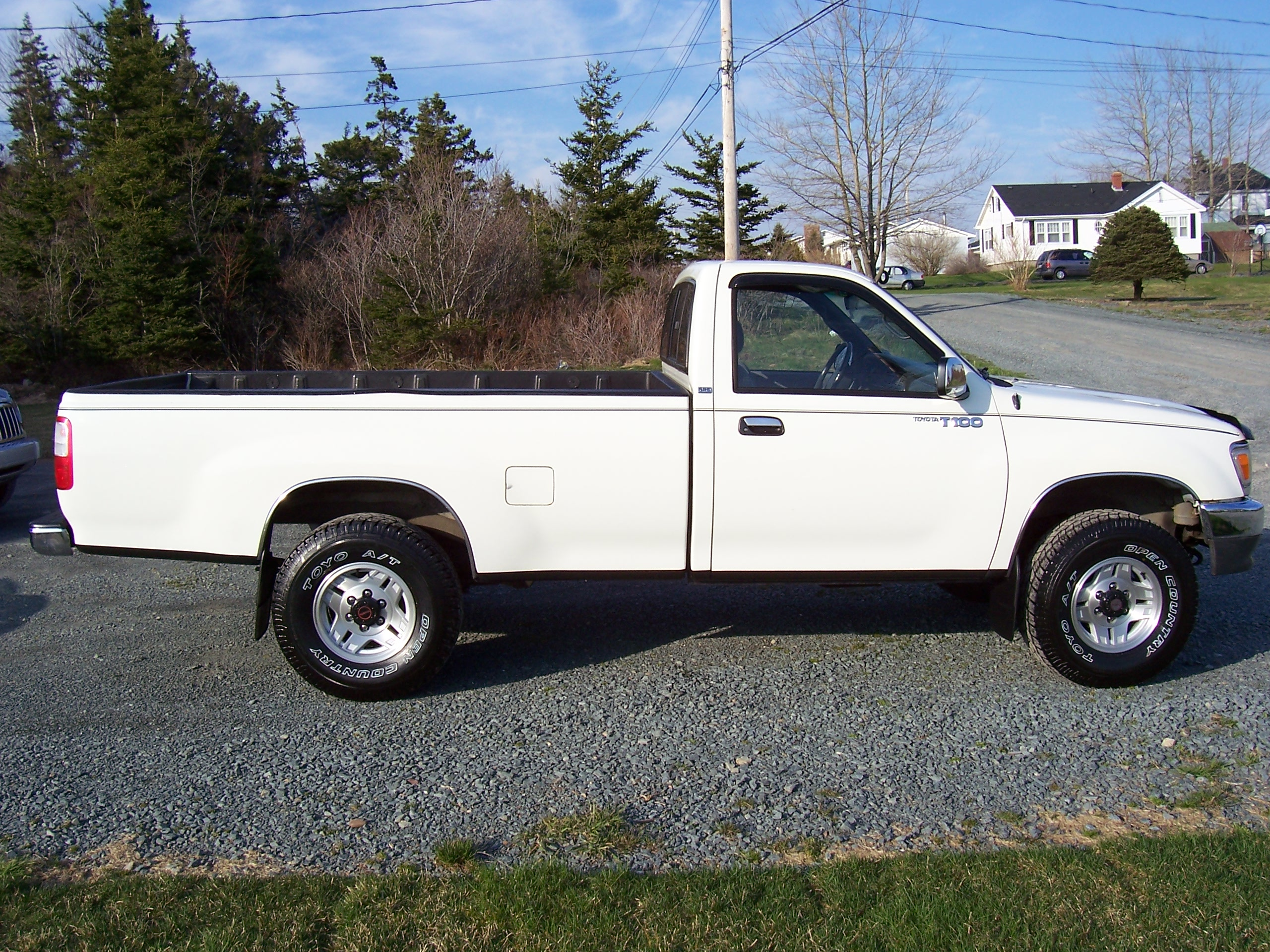 1993 Toyota T100 4X4 SR5